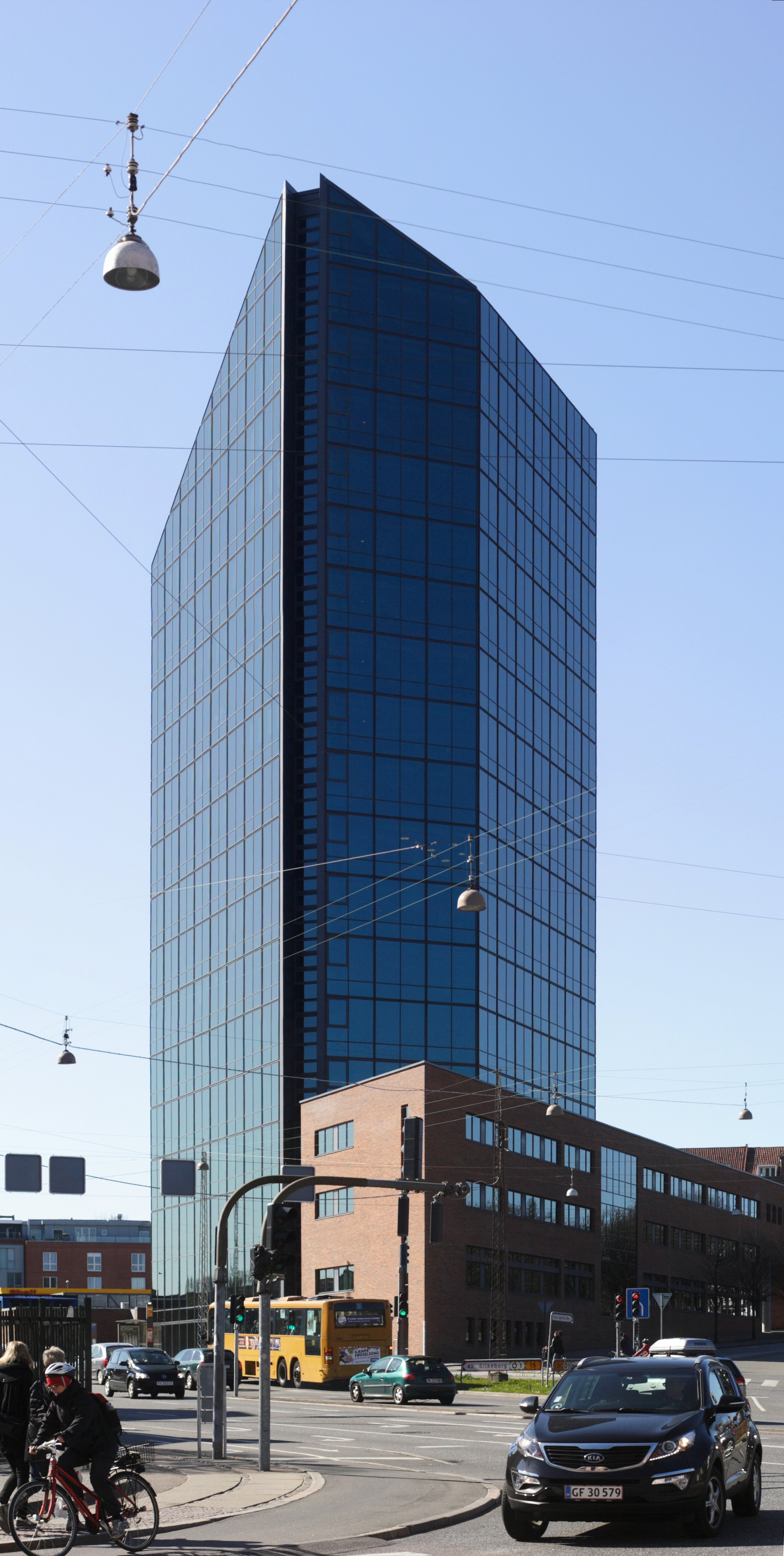 Building in Aahus DenmarkDansk: Prismet i Aarhus